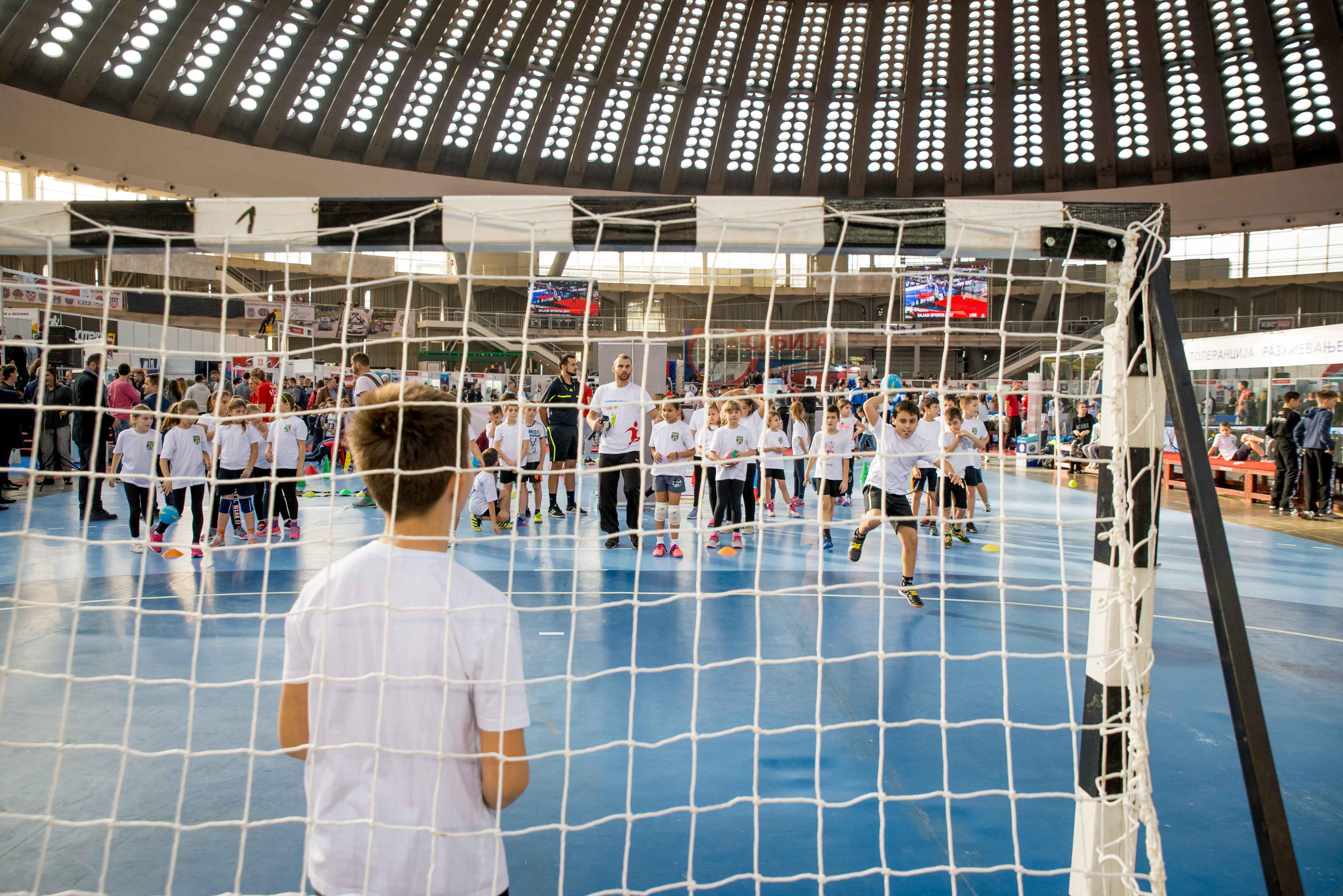 Kids playing Mini handball Српски (ћирилица): Приказ минирукометне игре